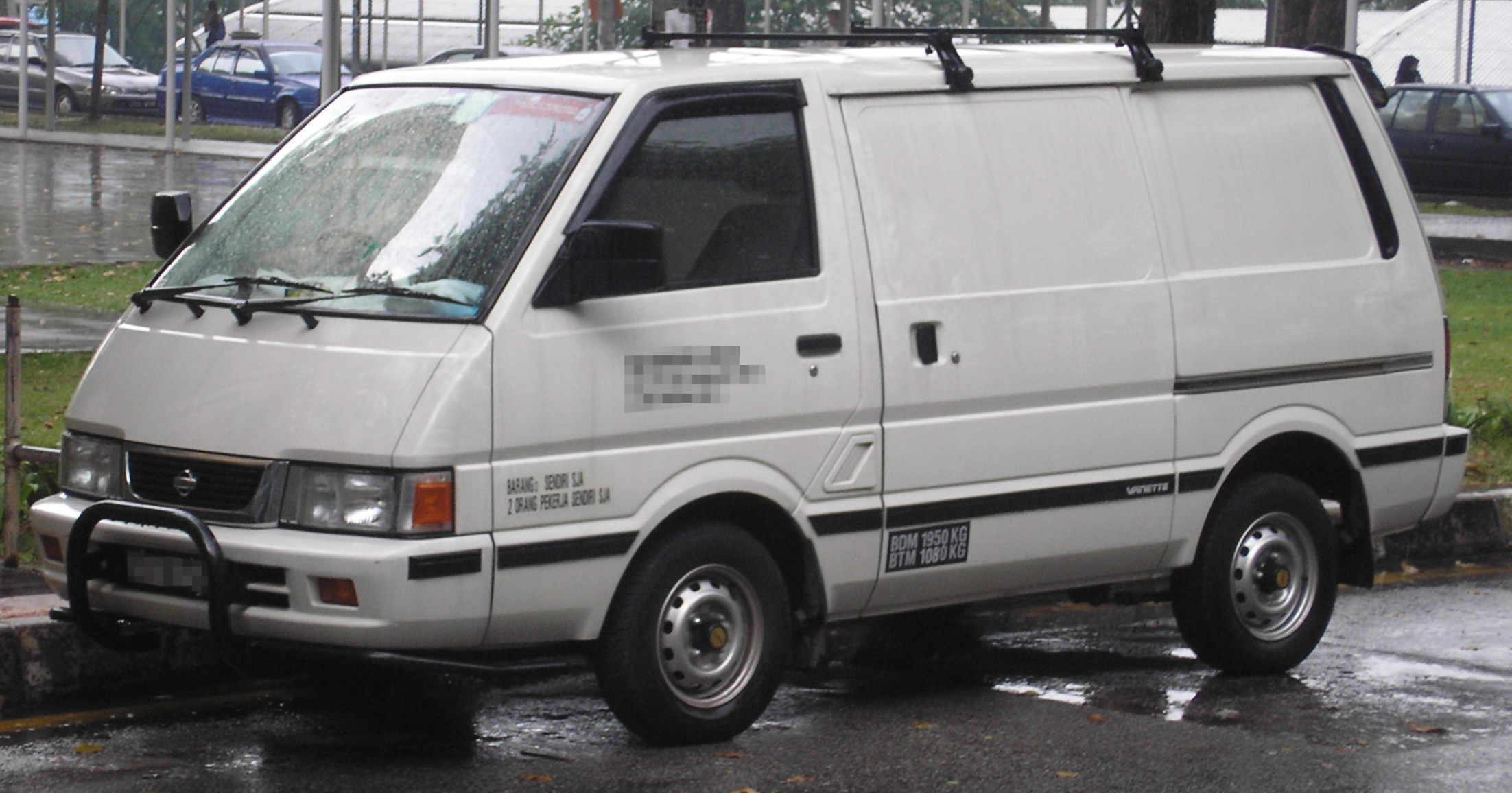 Front-side shot of a second generation, third facelift Nissan Vanette panel van, in Bandar Tun Razak, Kuala Lumpur, Malaysia.